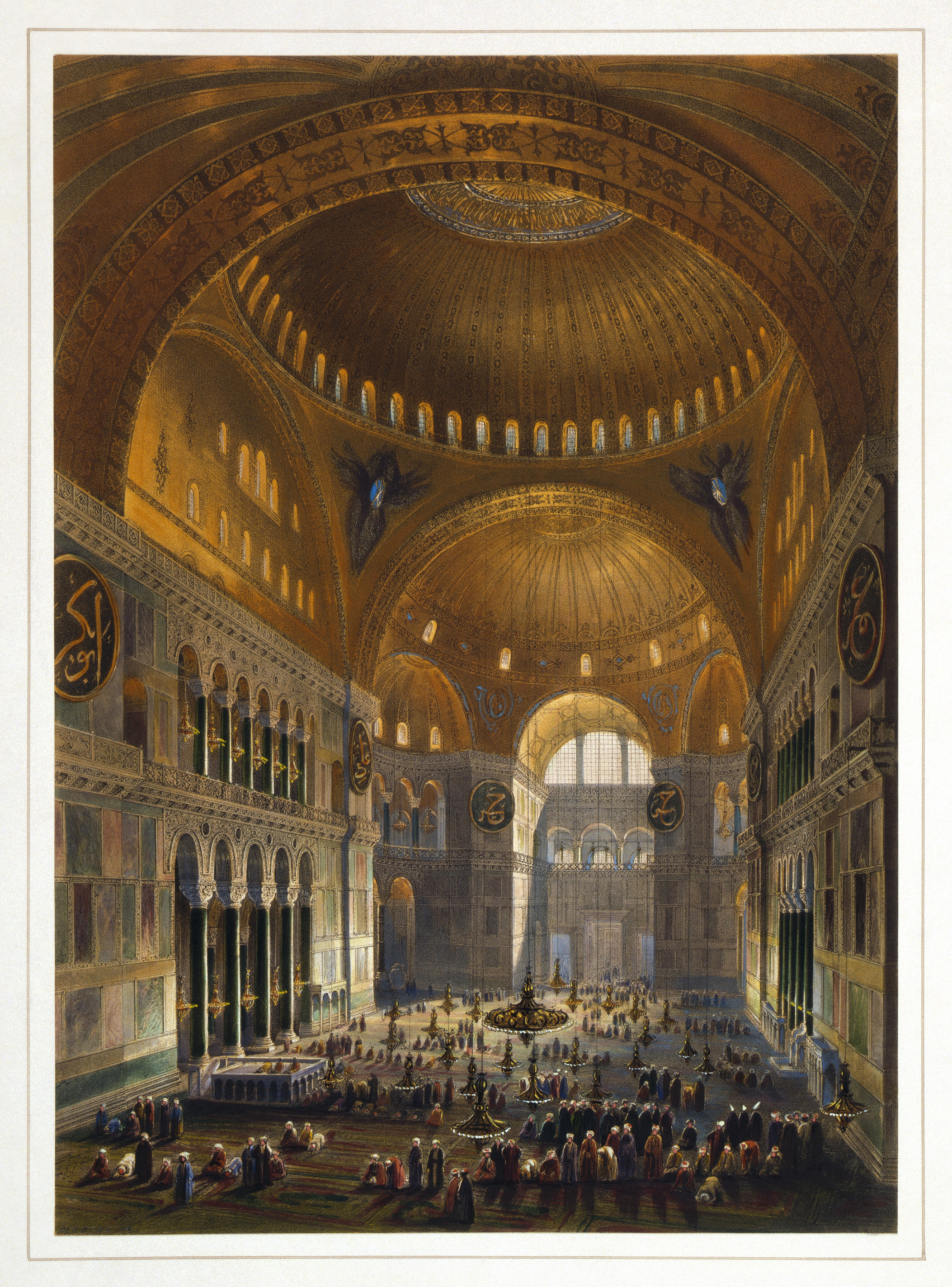 "Vue générale de la grande nef, en regardant l'occident" - An illustration of the nave of the Ayasofya Mosque/Hagia Sophia from the period when it was in use as a mosque. This appears to be a very accurate depiction, compare this (somewhat badly degraded) photograph from fifty years later.